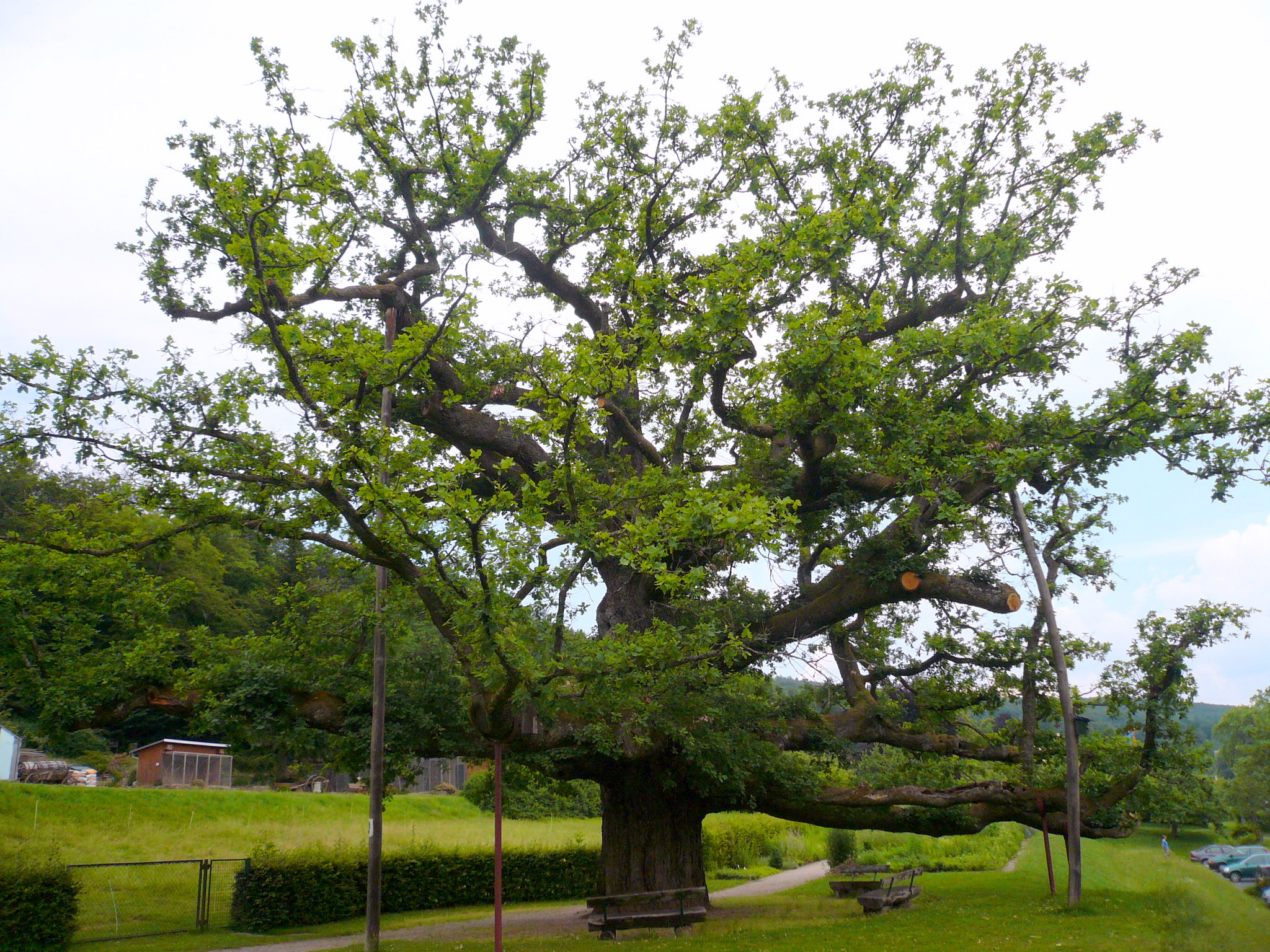 König Ludwig oak, Franconia